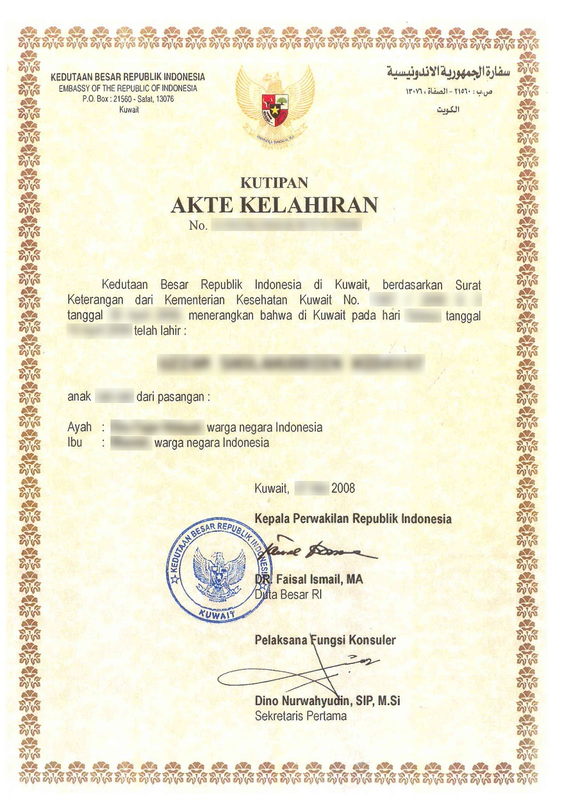 An Indonesian consular birth certificate.